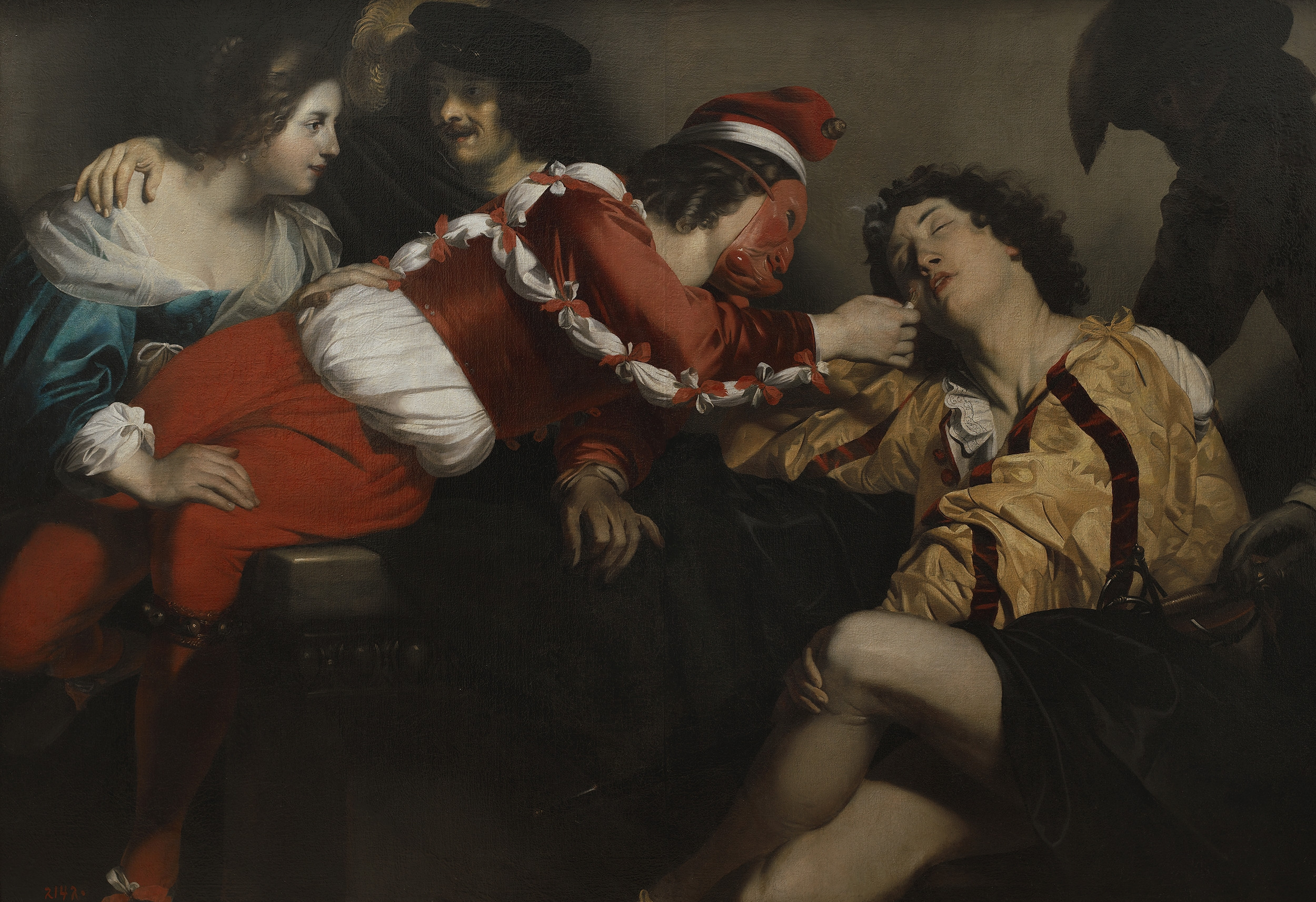 Waking the sleeping youth with a burning wick.